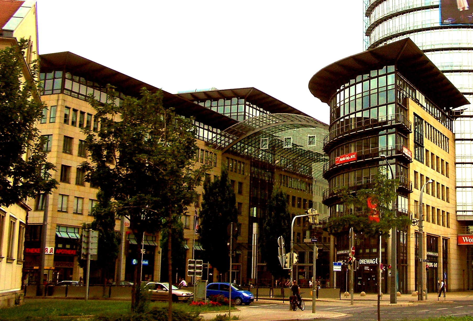 office building World Trade Center in Dresden, Germany